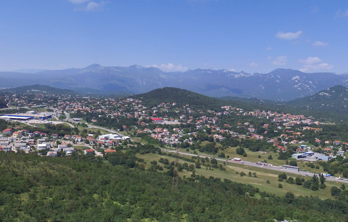 Čavle, Kukuljanovo